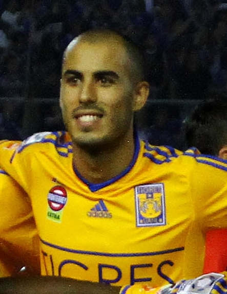 Manta, 19 de may (Andes).-El equipo Tigres de México se enfrenta a Emelec en el partido de ida por los cuartos de finales de la Copa Libertadores, en el estadio Jockay de la ciudad de Manta, ManabíFotos:César Muñoz/Andes Guido Pizarro